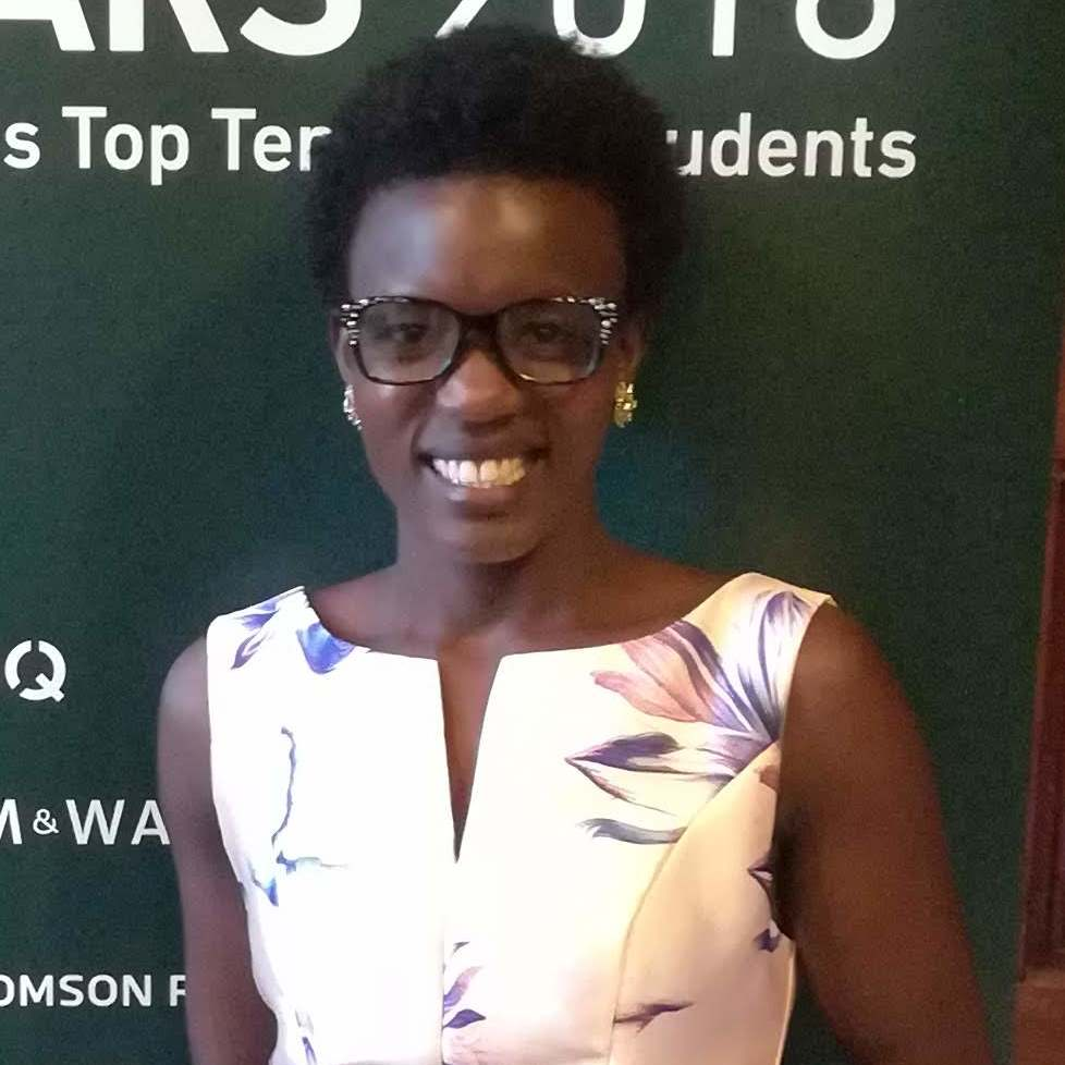 Rare Rising Award Ceremony at the House of Commons